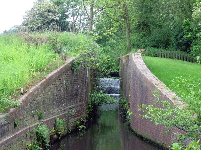 Old Lock Chamber The old lock chamber, on the disused Shrewsbury canal, at Eyton upon the Weald Moors.